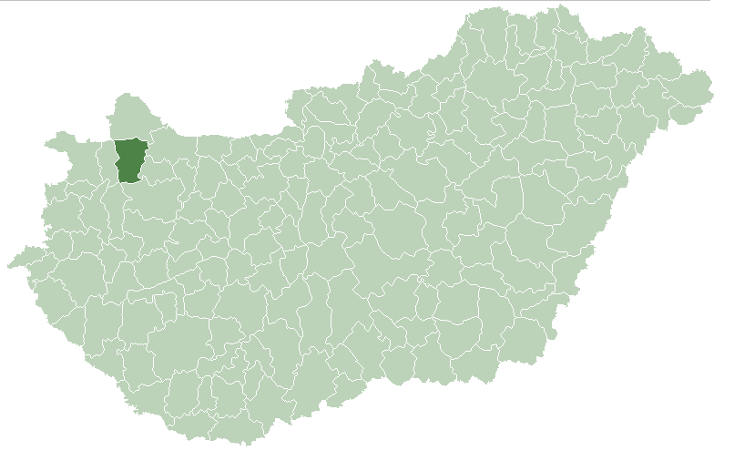 Subergion Csorna on map of Hungary.